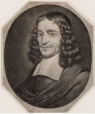 Gerard Brandt, Dutch historian from Amsterdam (25-07-1626 / 12-10-1685 ).